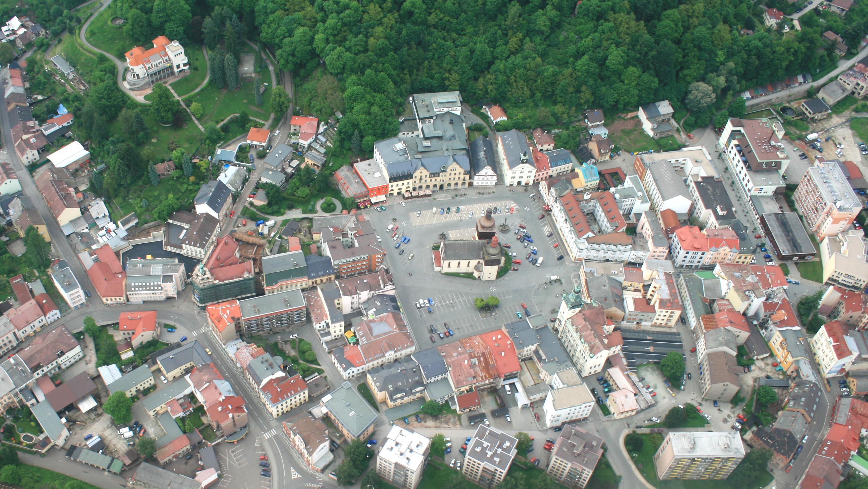 Central part of town Náchod from air, eastern Bohemia, Czech Republic